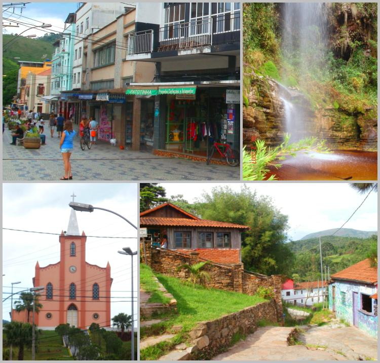 Montage about Lima Duarte, Minas Gerais, Brazil.